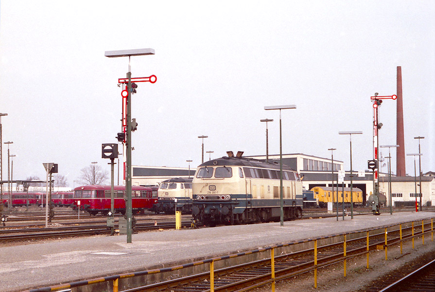 The depot of Muehldorf with 218 391-1 and some railbusses in the background.